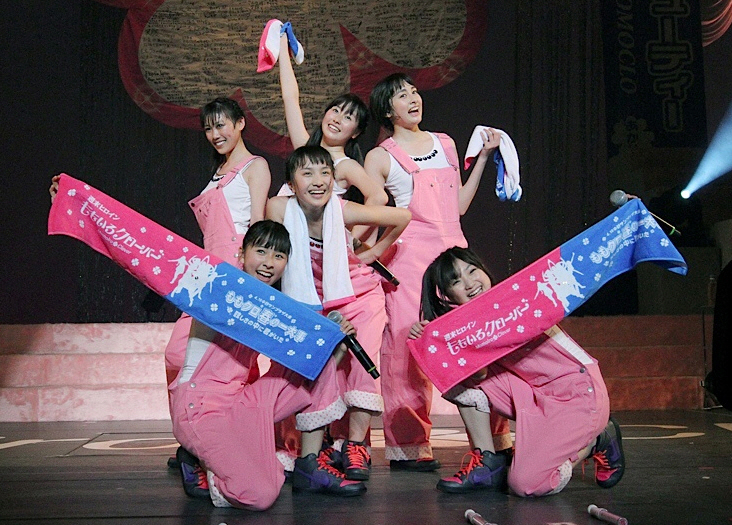 By Danny Choo - View more at